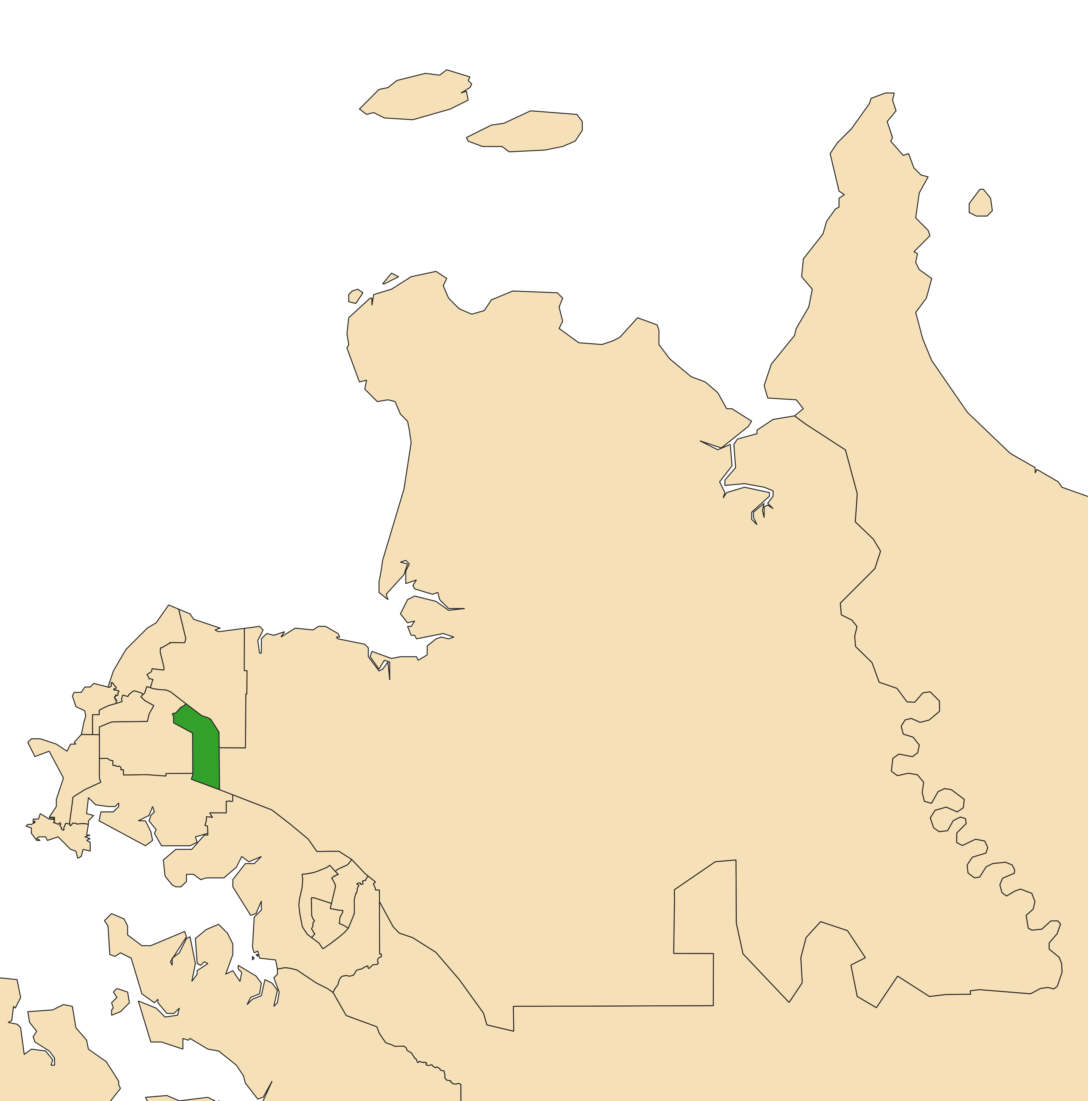 Location of the electoral division of Karama (dark green) in the Darwin/Palmerston area of the Northern Territory at the 2020 Northern Territory election